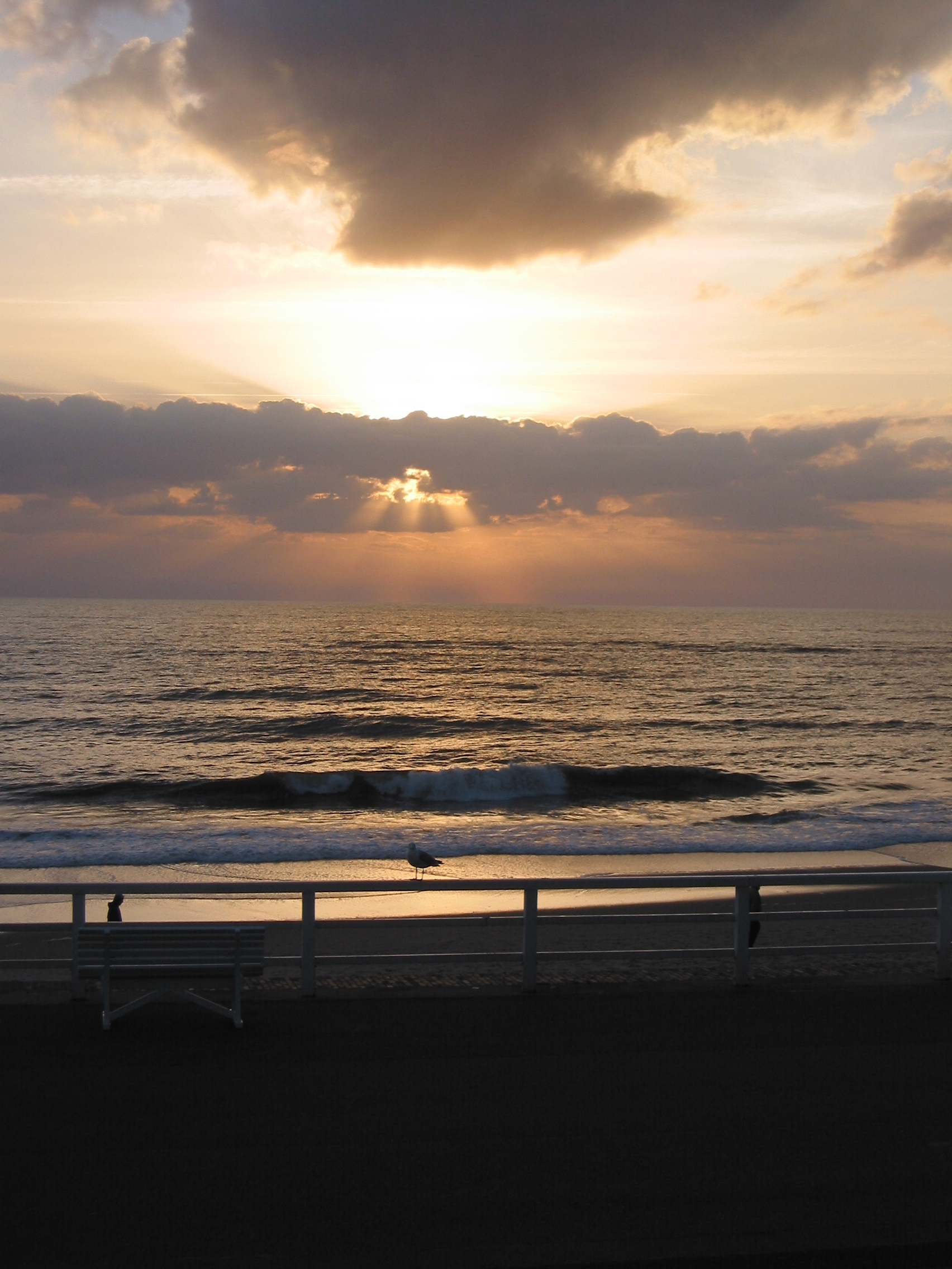 Sundown at Westerland, Sylt, Germany.